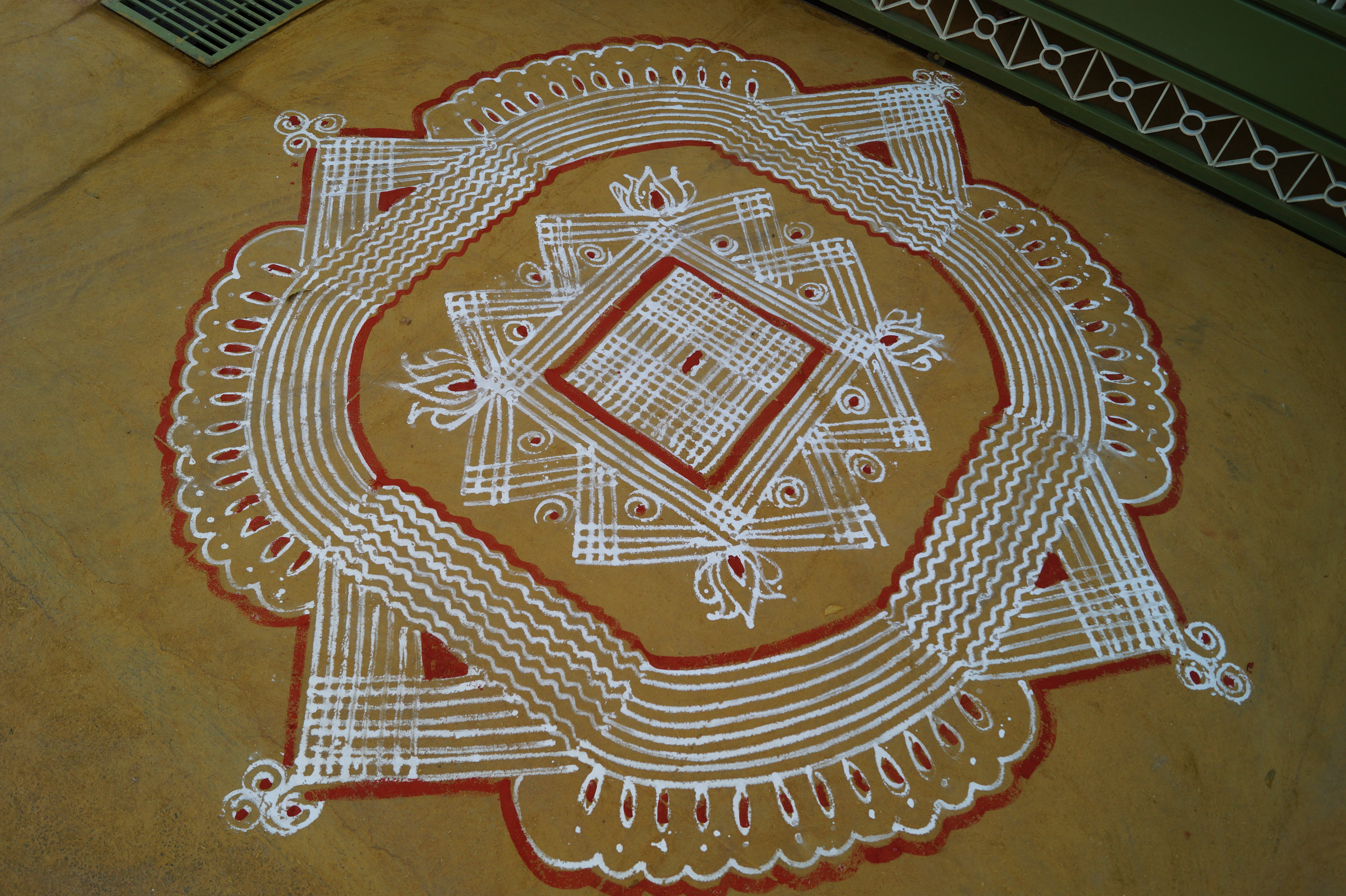 Traditional kolam made with rice flour and kaavi borders ,made for festival season at Tamilnadu,India.